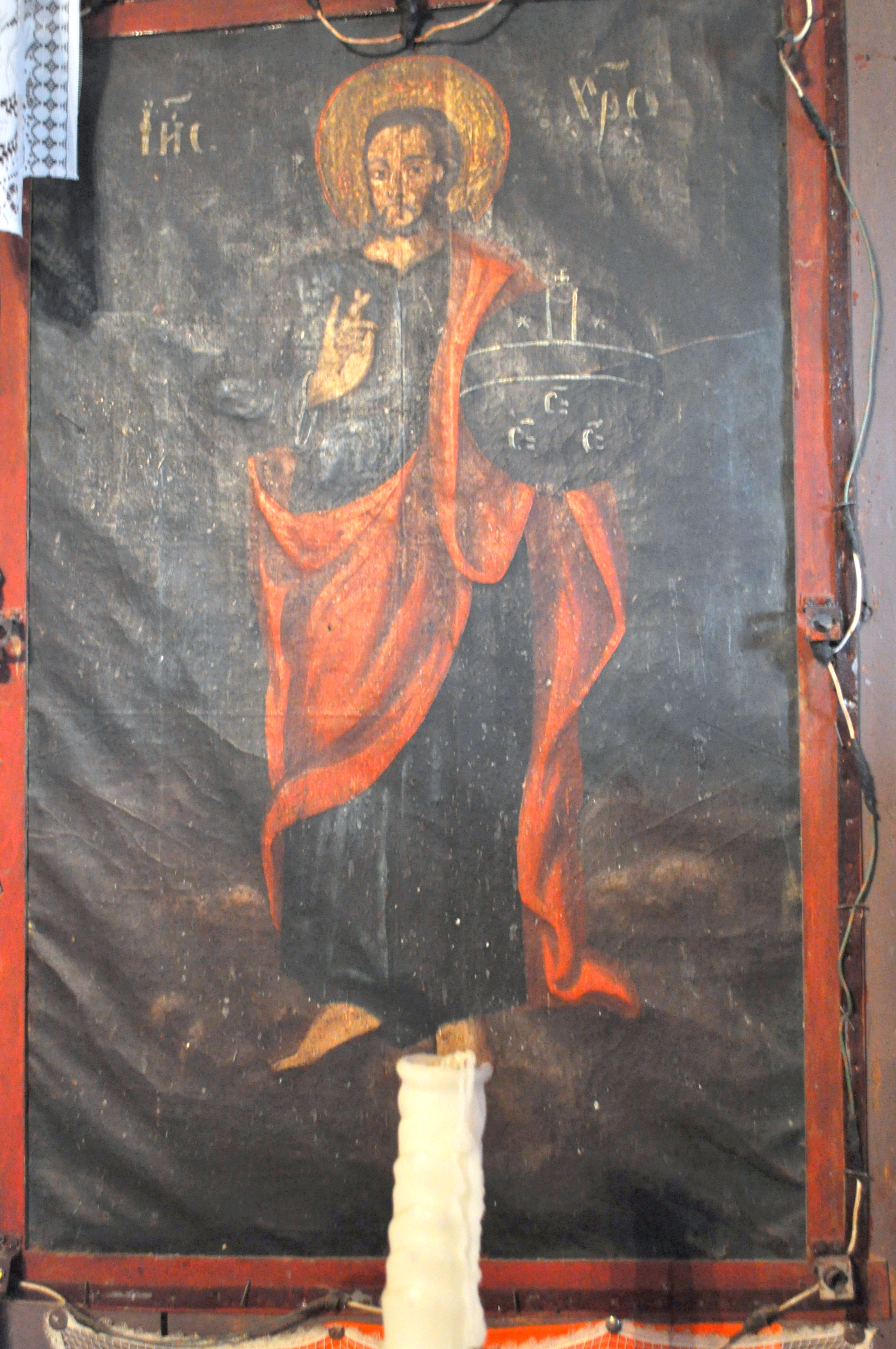 The old wooden church in Bruznic, Arad county, Romania